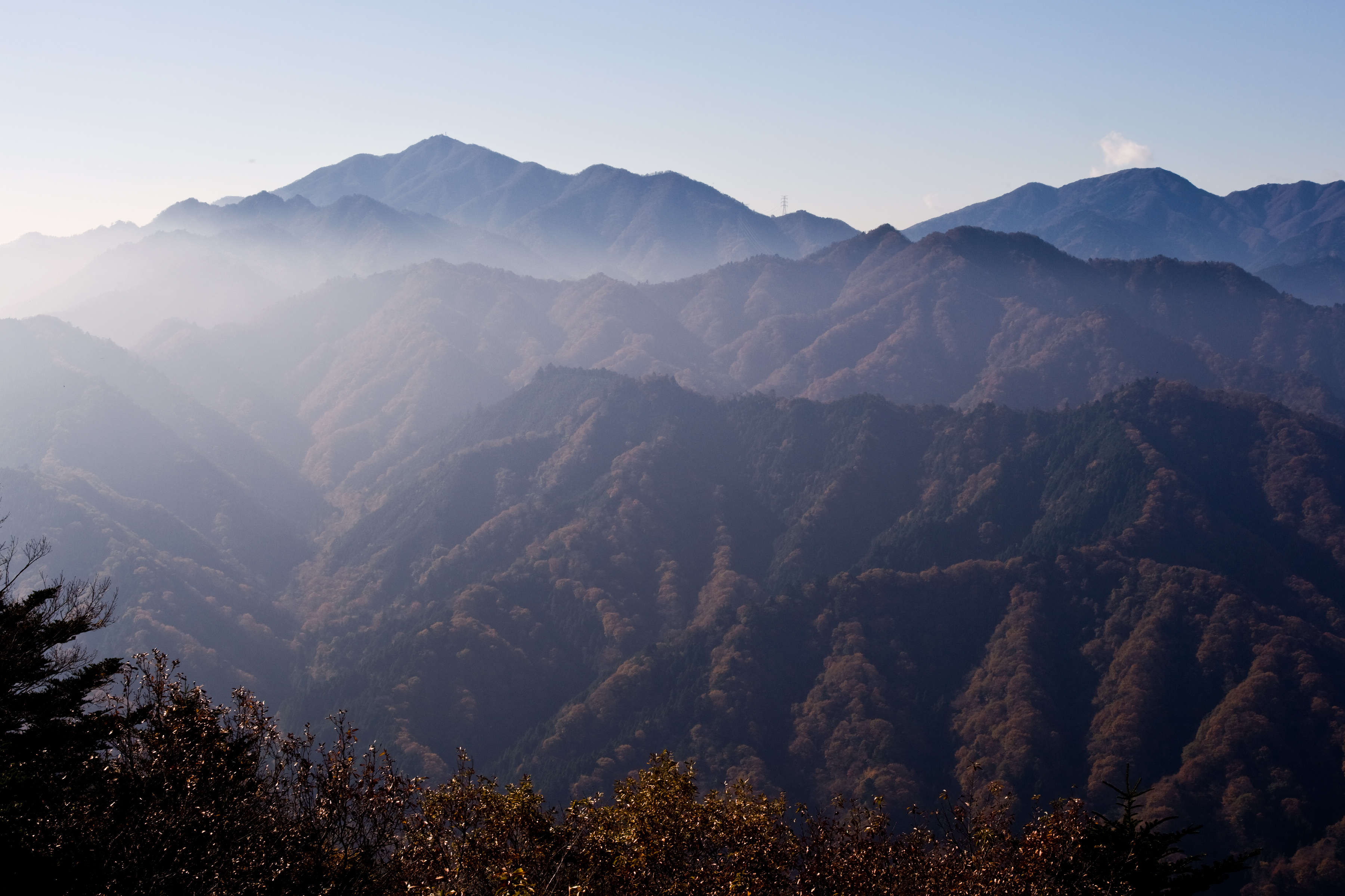 Mt.Oyama as seen from Mt.Bukka, Mts.Tanzawa, Kanagawa Pref., Japan.